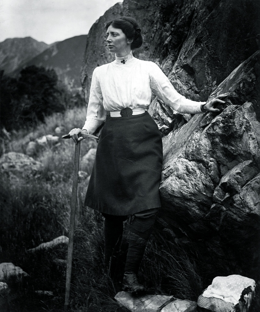 Emmeline Freda du Faur, the first female mountaineer to climb Aoraki / Mount Cook (New Zealand's highest peak), in the mountains holding an ice axe